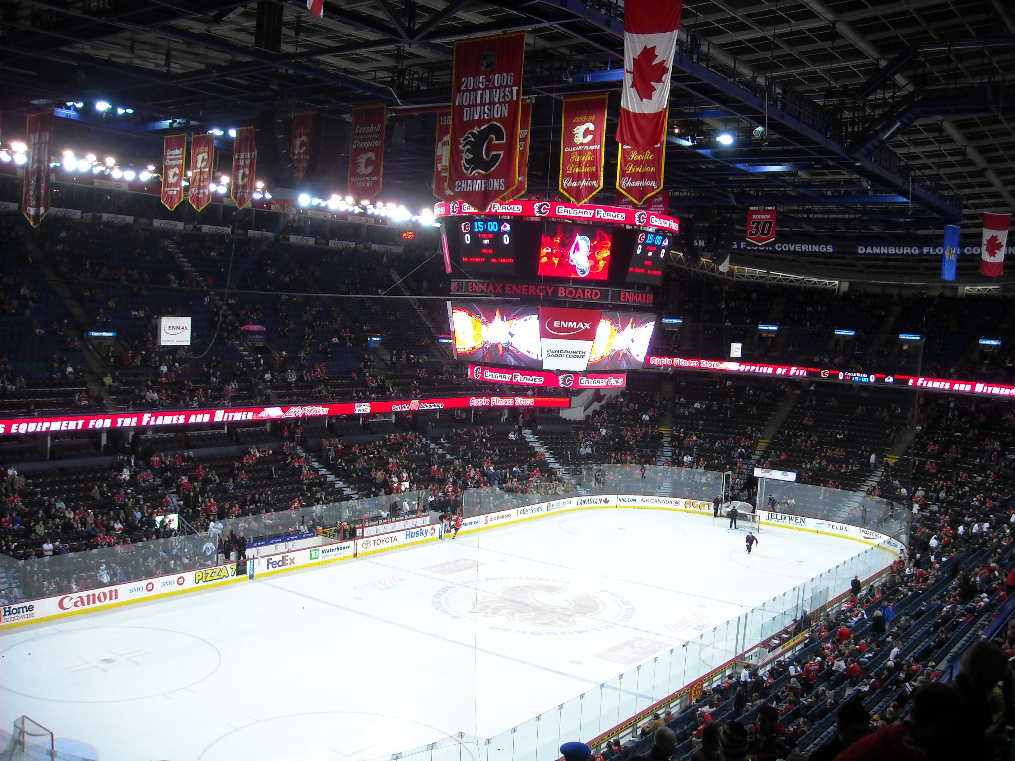 Scotiabank Saddledome